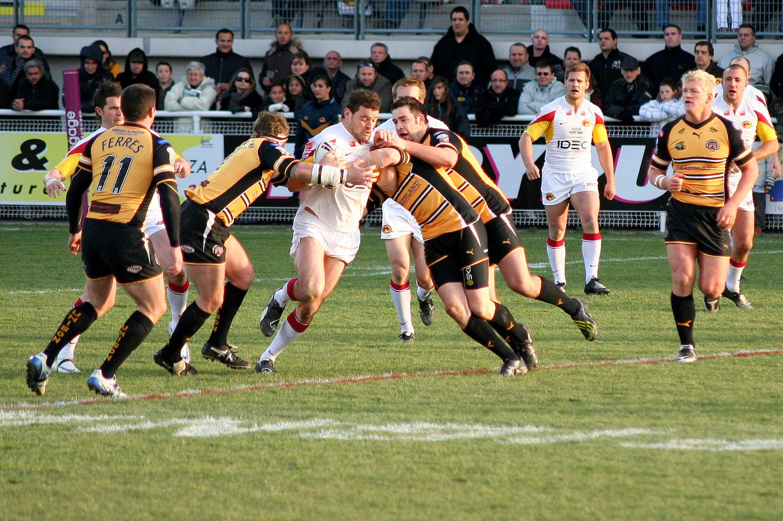 Photo of David Ferriol playing for Catalans Dragons in the Dragons vs Castleford match in the Super League XIV